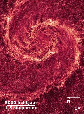 Whirlpool Galaxy (M51a) in near infrared by Hubble Space Telescope.